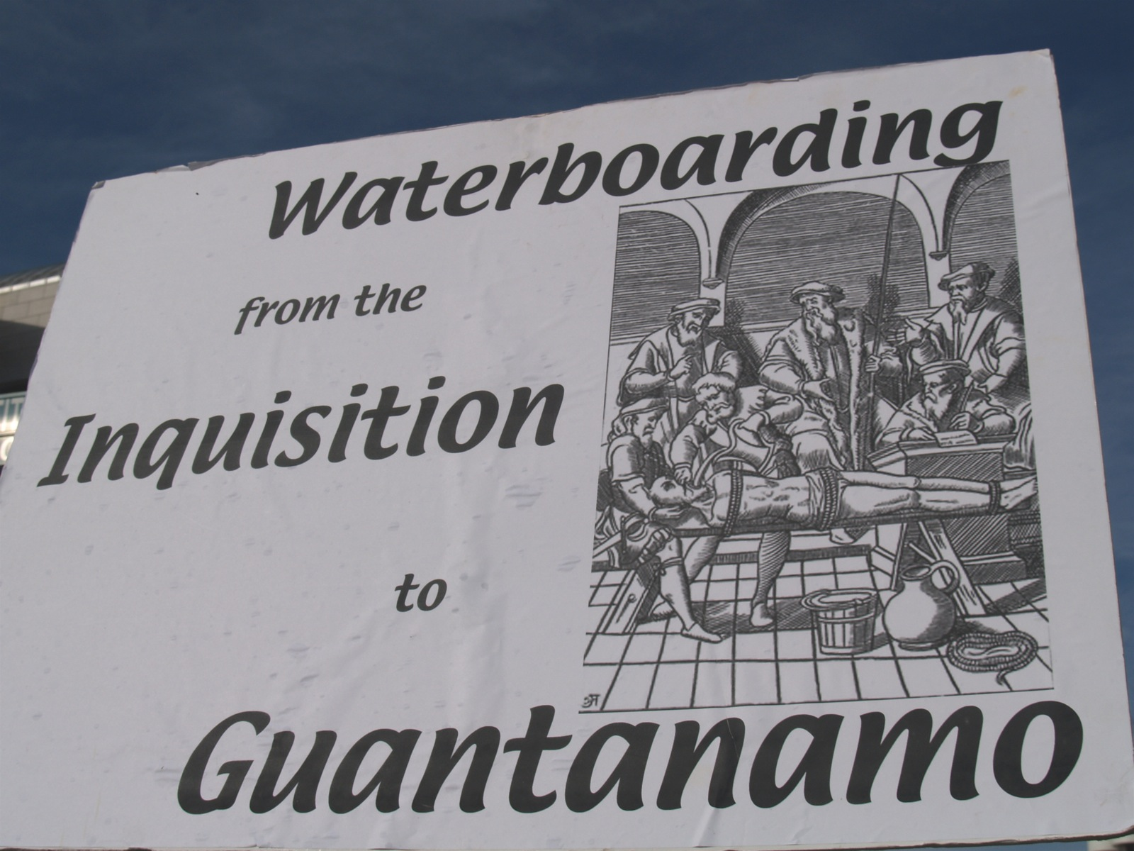 The following is the author's description of the photograph quoted directly from the photograph's Flickr page." "